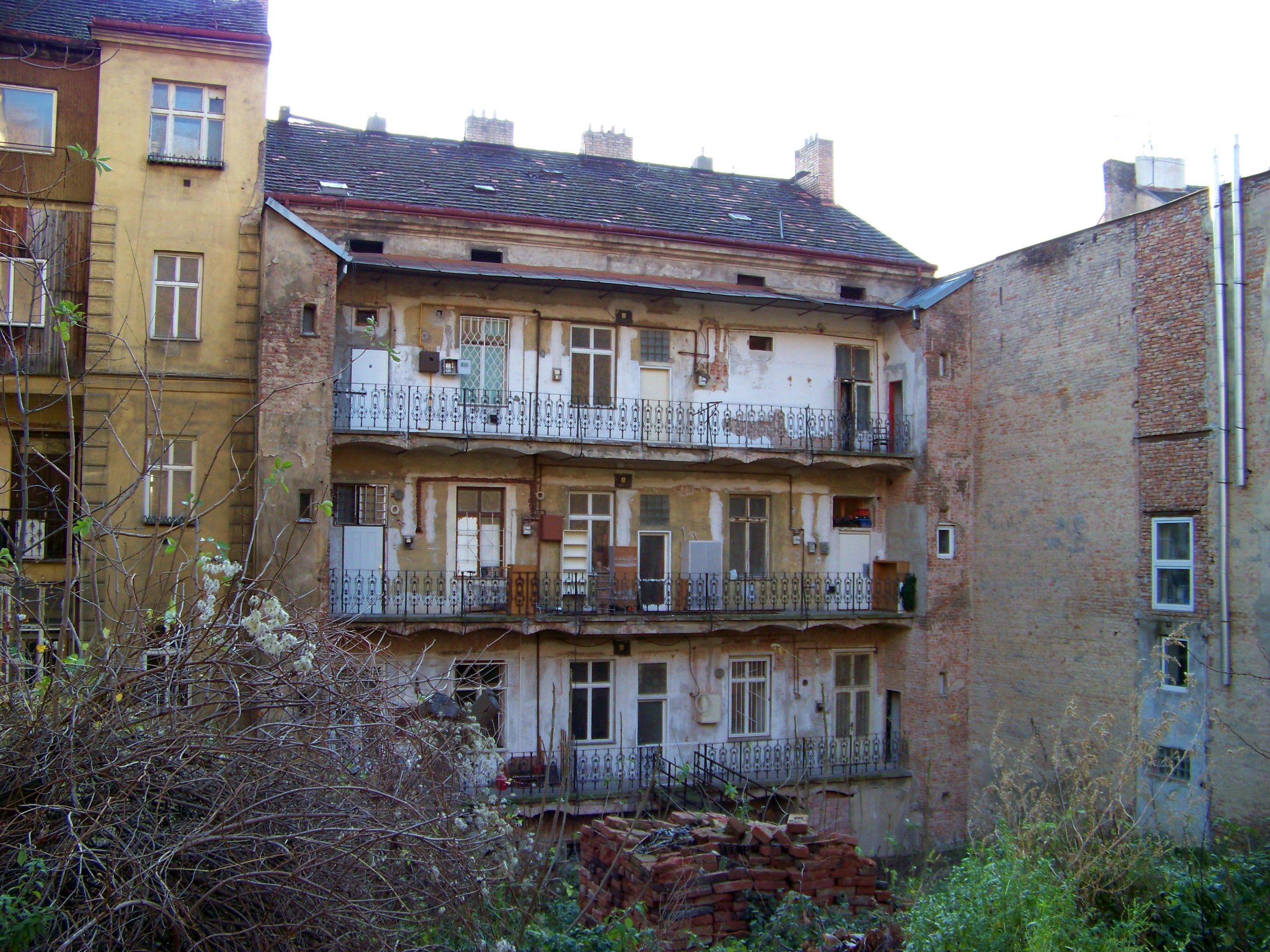 Prague-Žižkov. A view from the bikeway on the former railway track Prague–Turnov. The backside of a house in Husitská street.